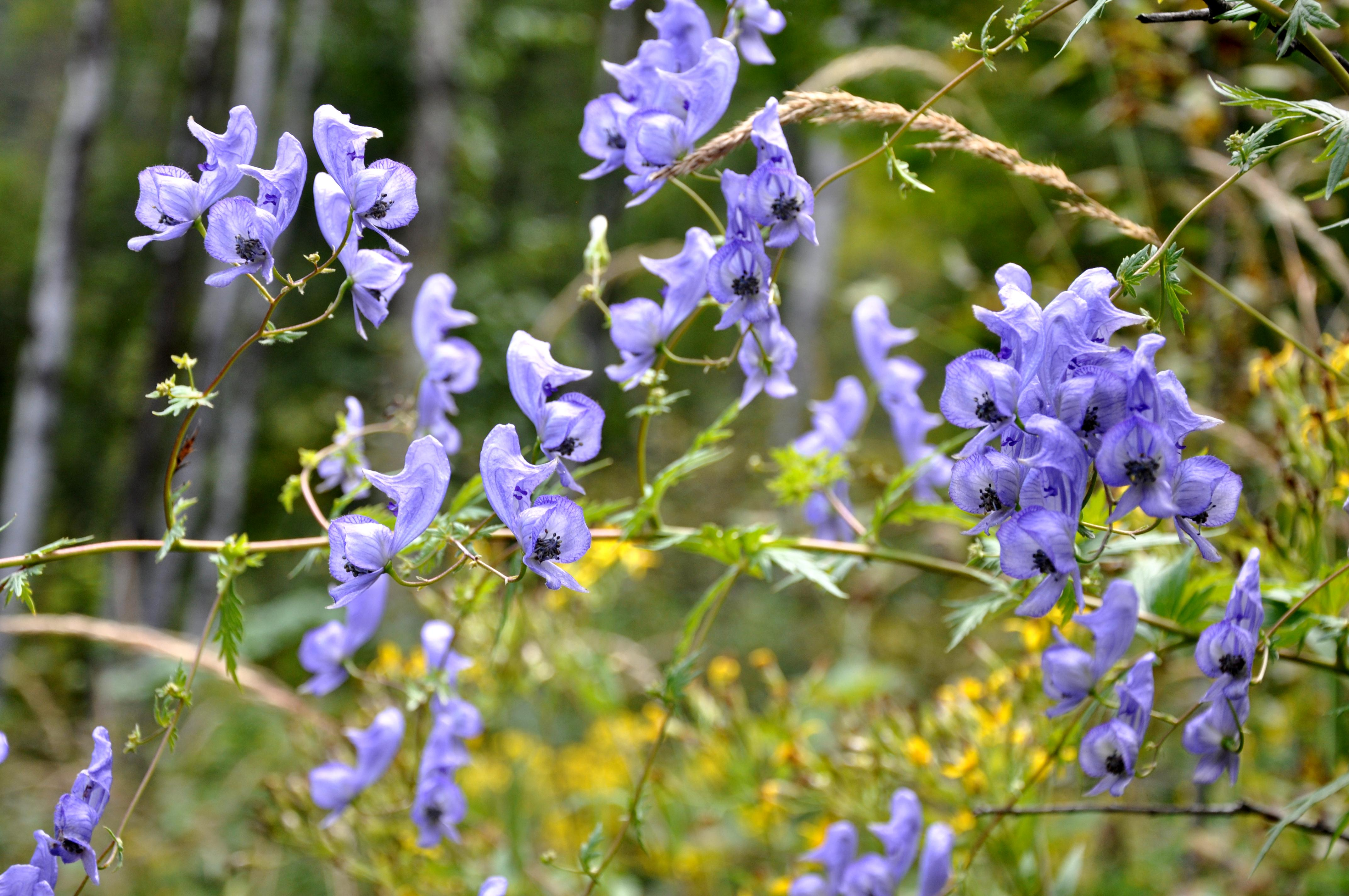 Taken in Tusheti, Omalo